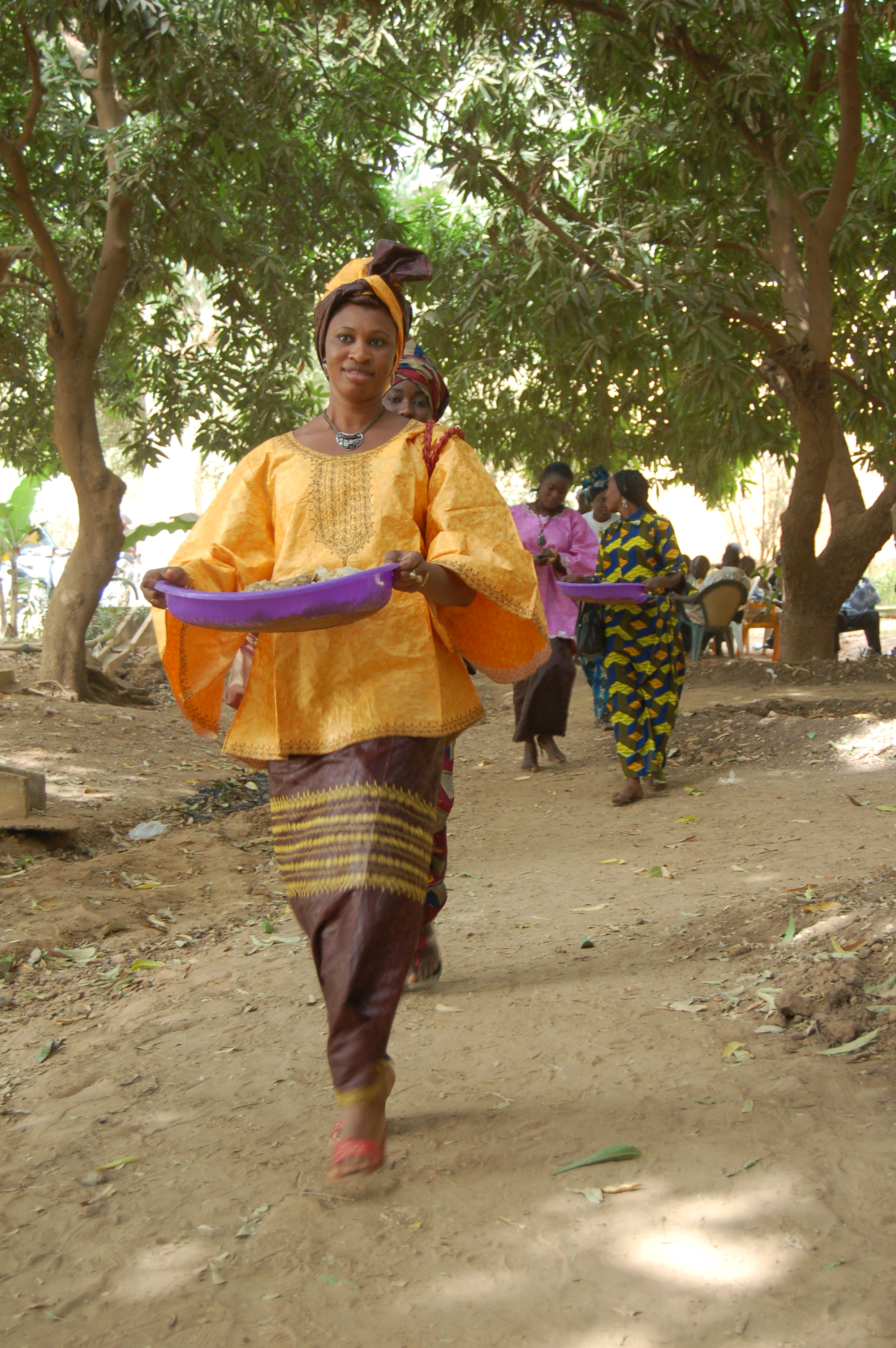 A woman prepares food for a banquet in Niamey, Niger in 2007